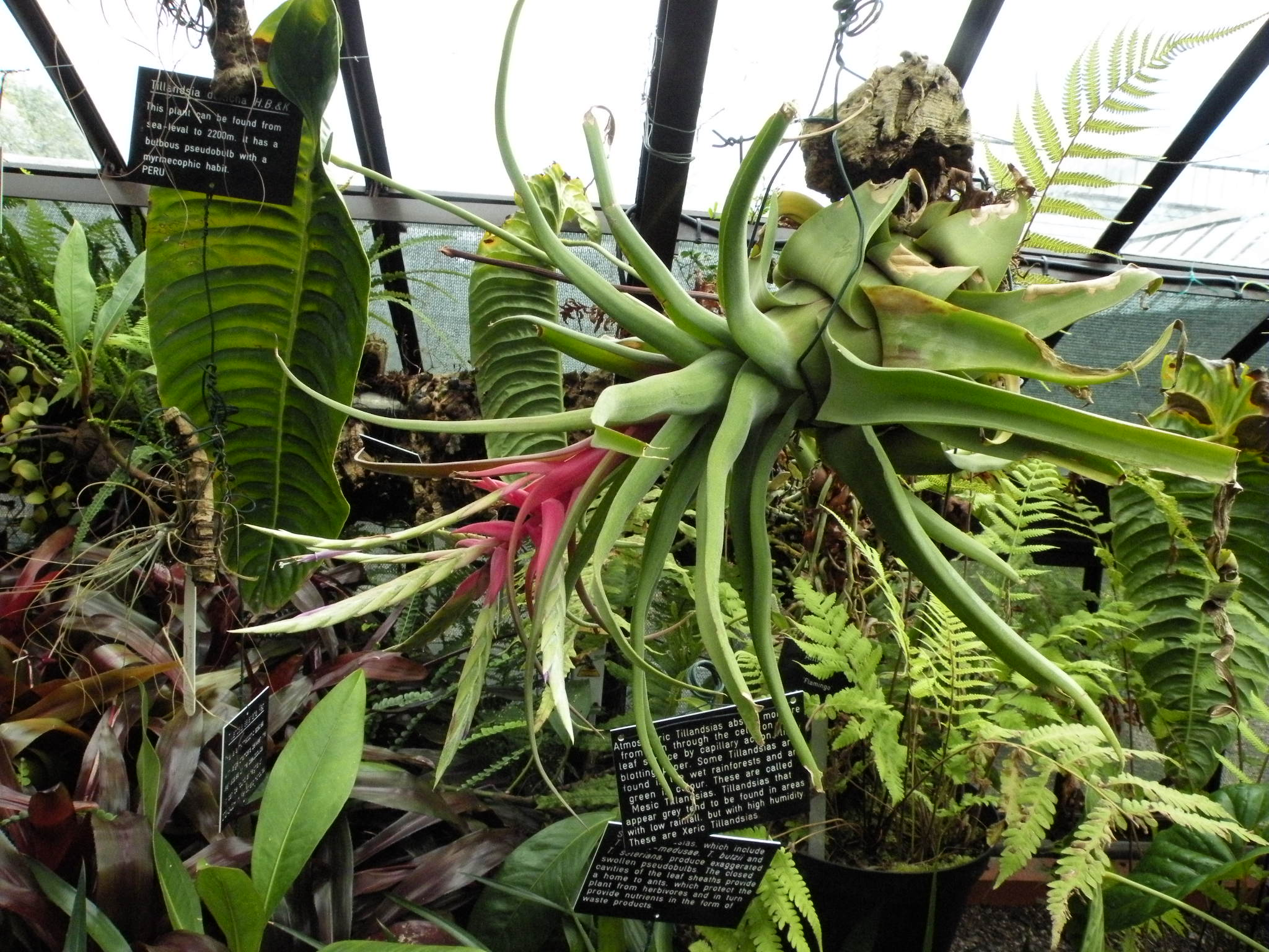 Tillandsia streptophylla. Glasgow Botanic Gardens.